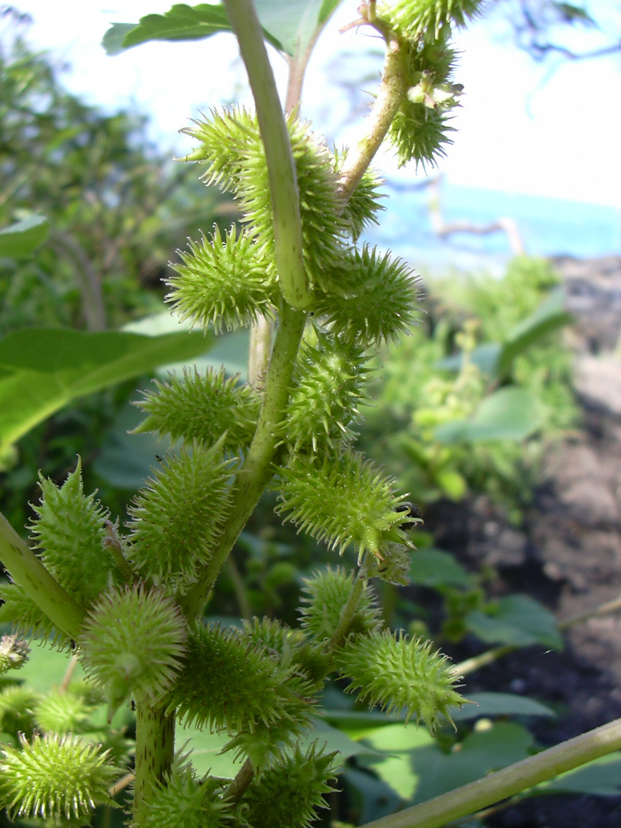 Xanthium strumarium var. canadense (burs). Location: Maui, LaPerouse